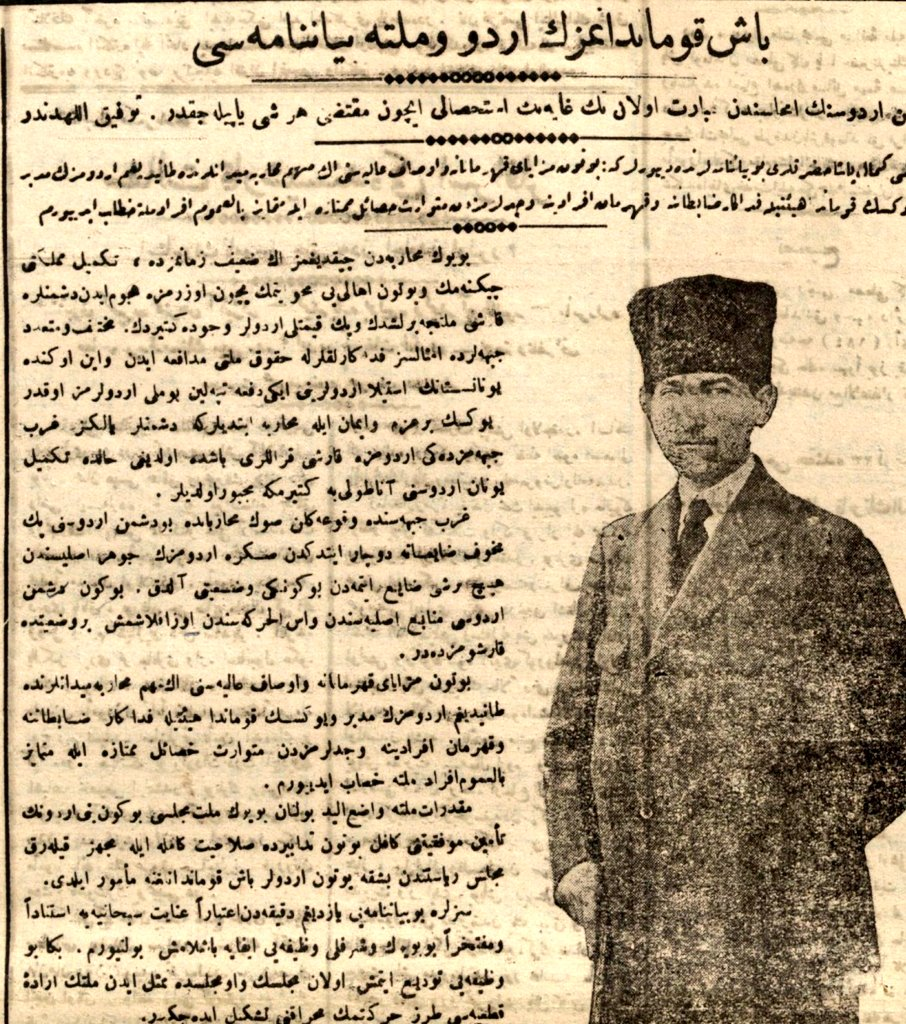 Kemal Atatürk (or alternatively written as Kamâl Atatürk, Mustafa Kemal Pasha until 1934, commonly referred to as Mustafa Kemal Atatürk; 1881 – 10 November 1938) was a Turkish field marshal, revolutionary statesman, author, and the founding father of the Republic of Turkey, serving as its first President from 1923 until his death in 1938. He undertook sweeping progressive reforms, which modernized Turkey into a secular, industrial nation. Ideologically a secularist and nationalist, his policies and theories became known as Kemalism. Due to his military and political accomplishments, Atatürk is regarded as one of the most important political leaders of the 20th century.